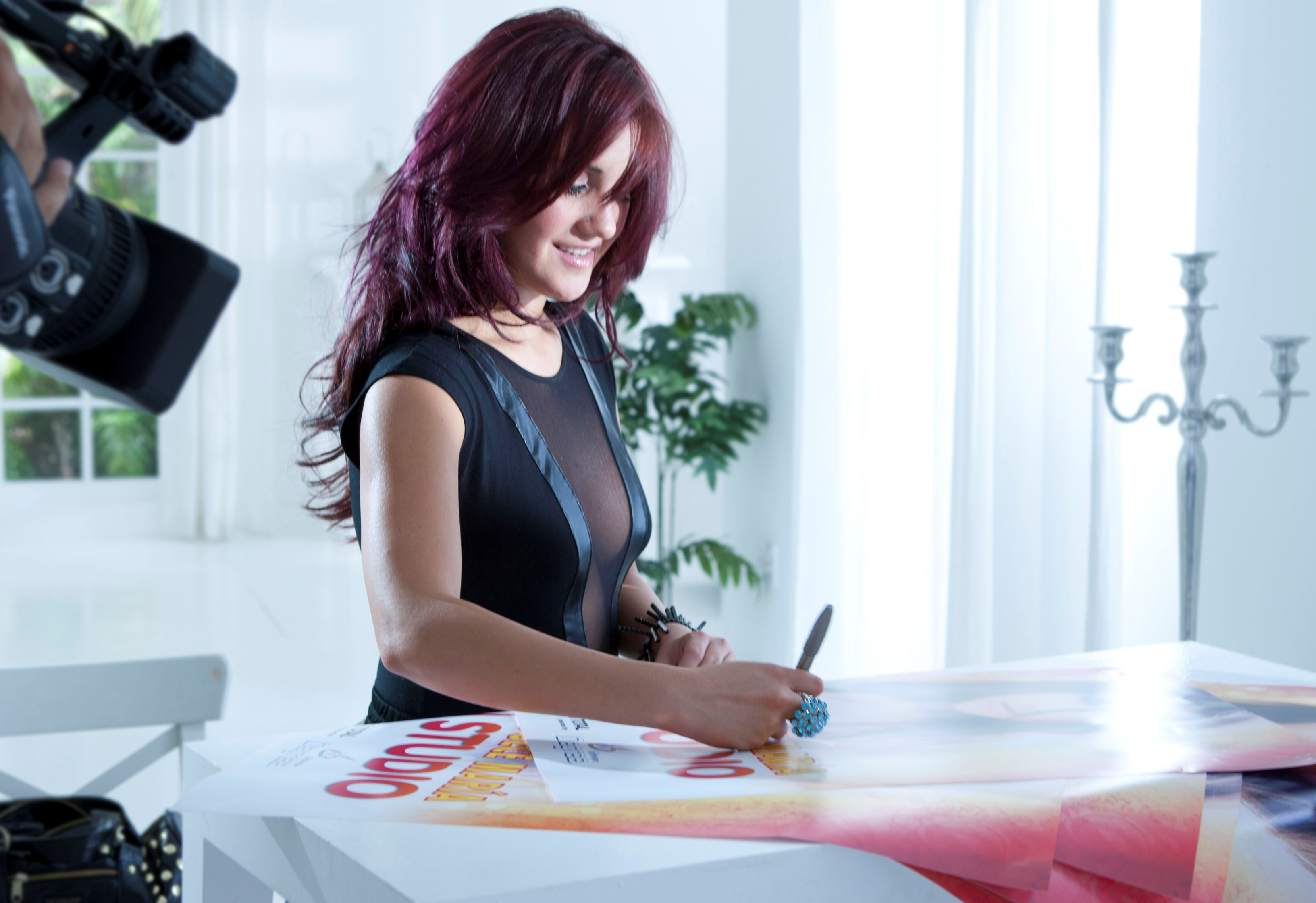 Dulce Maria on set.